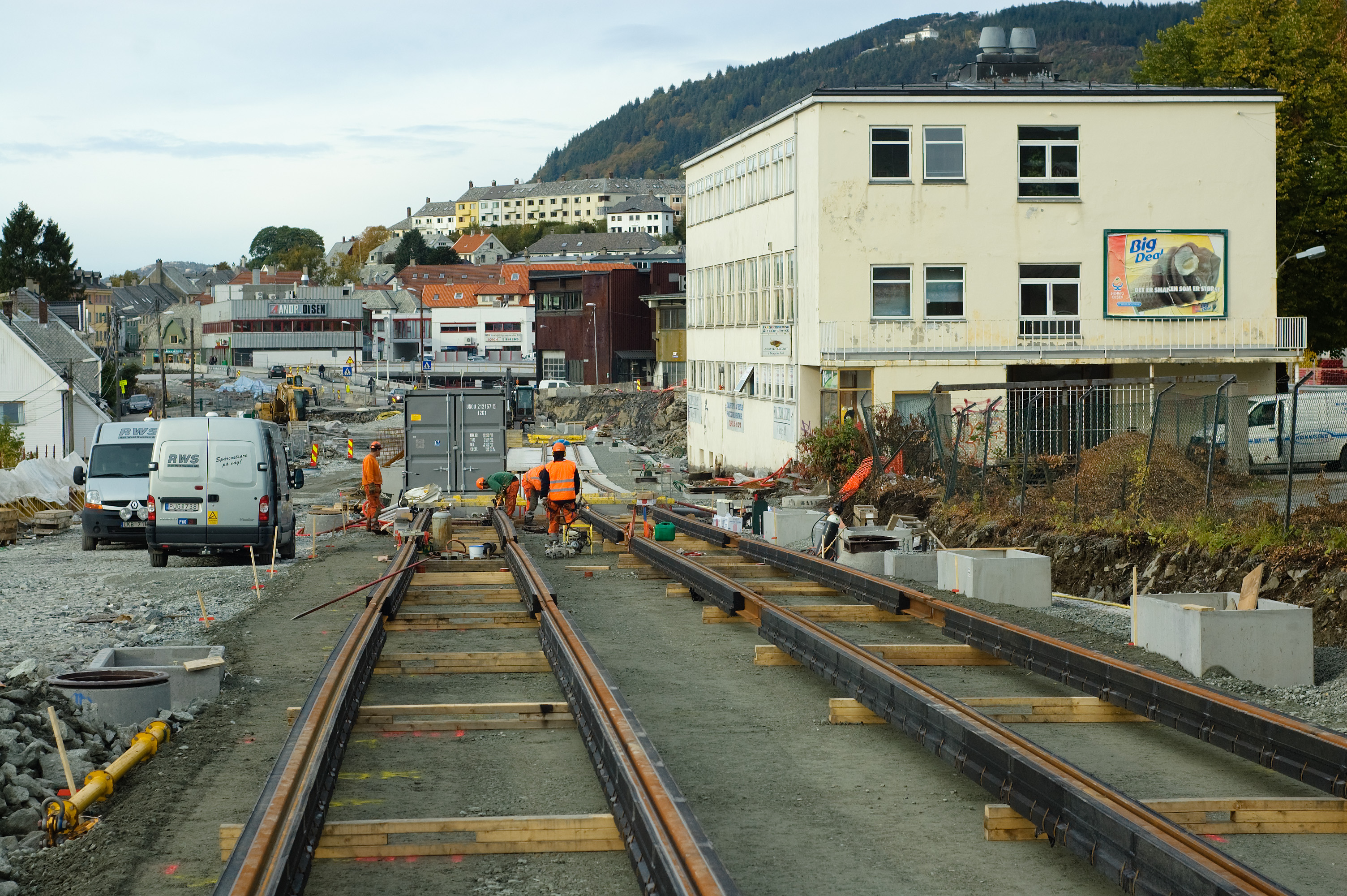 Tracks for the Bergen Light Rail system in Bergen, Norway.